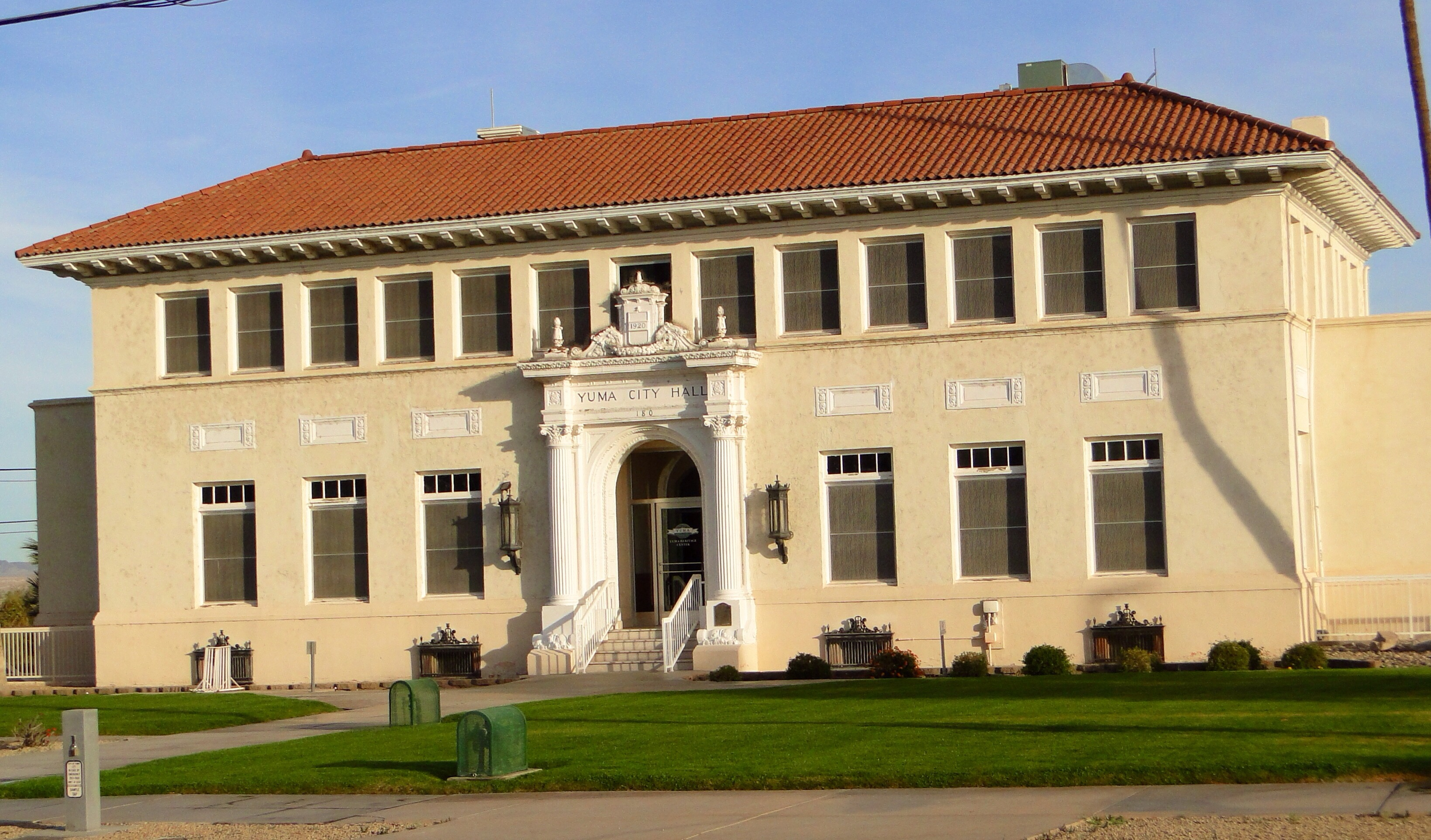 Former Yuma City Hall, 180 1st Street, Yuma, Arizona